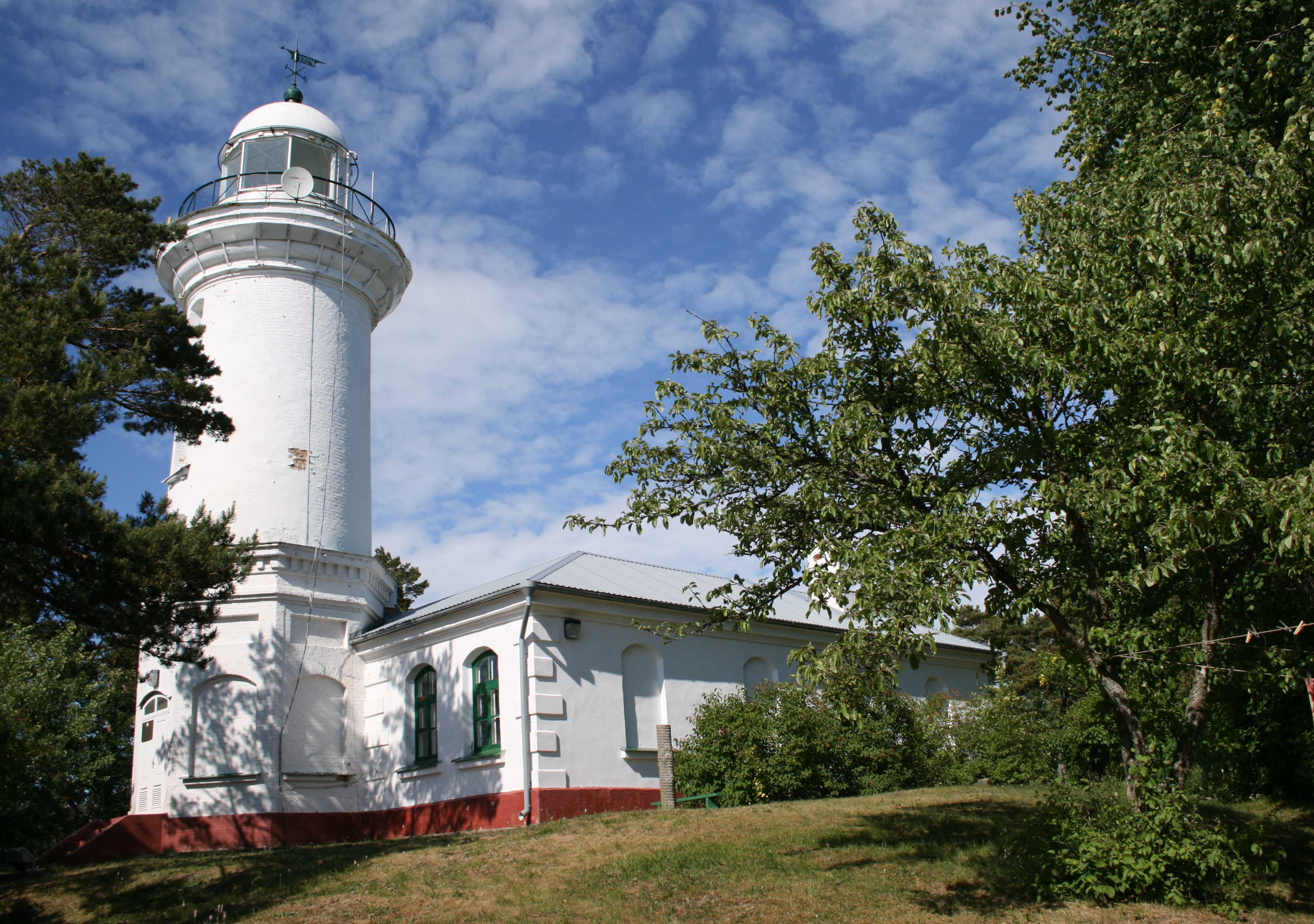 Užava LighthouseLatviešu: Užavas bāka